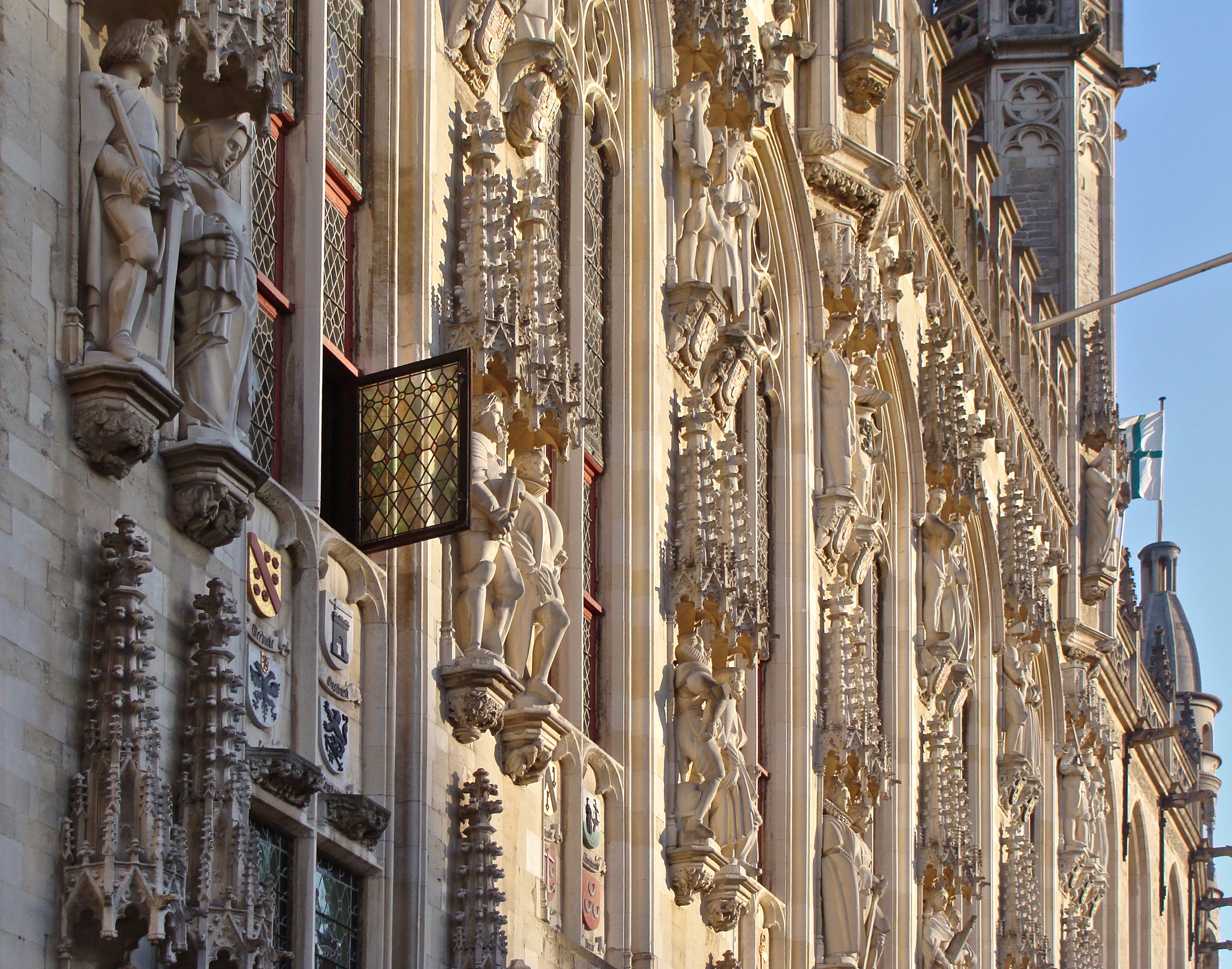 the Town hall of Bruges in Belgium